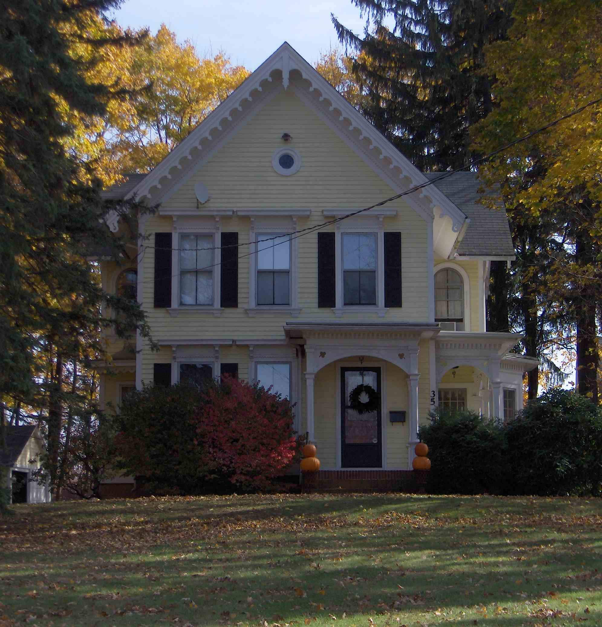 Charles Cowles House an Italianate style building at 35 Church street in the Plantsville section of Southington, CT USA. Built in 1873